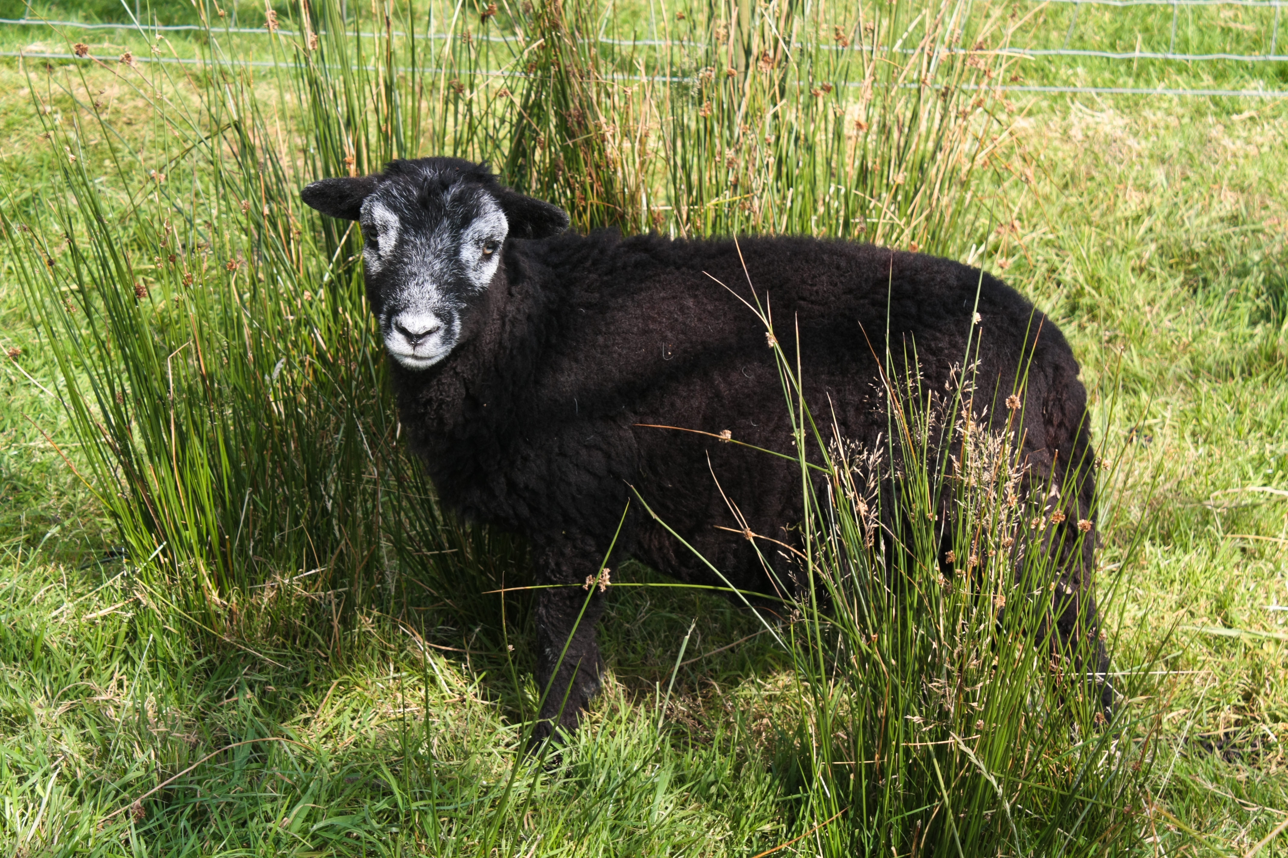 A Herdwick lamb in the Lake District.